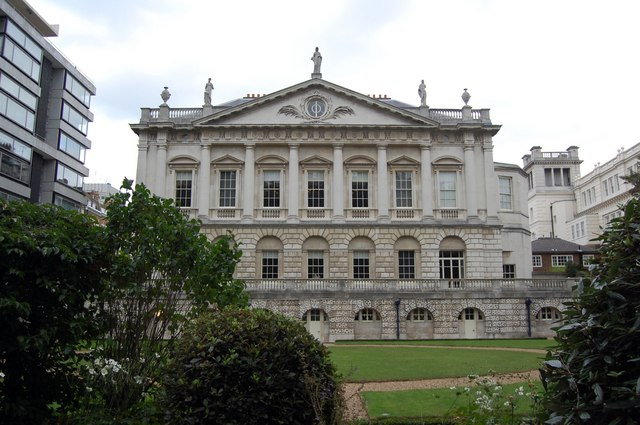 House overlooking Green Park